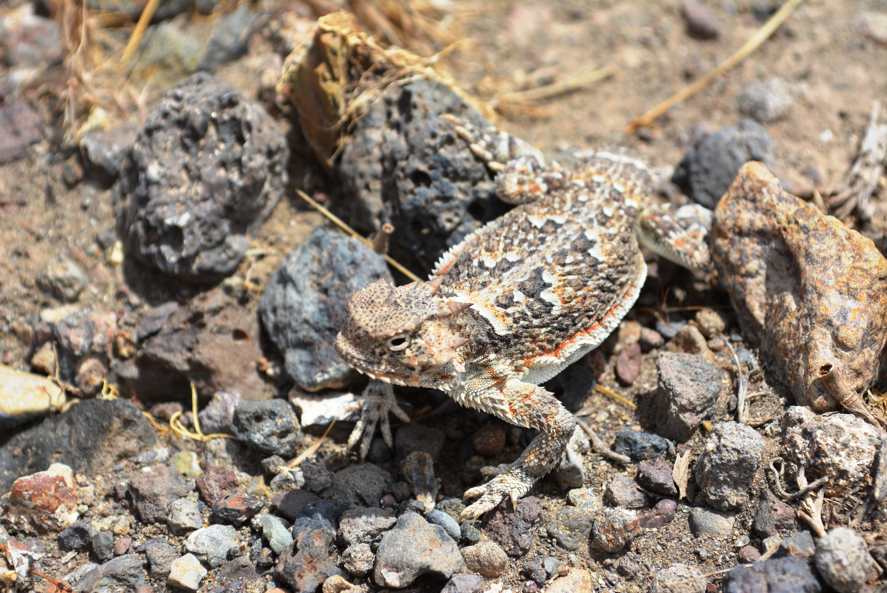 While Steens Mountain looms to the west, the shimmering salt flats of the Alvord Desert unfold to the east. The Alvord Desert playa, which can be either wet or dry depending on the time of year, is one of the largest playas in Oregon—six miles wide and 11 miles long. Tens of thousands of years ago, a lake almost 200 feet deep covered the Alvord Desert and extended southward into Nevada. The old shoreline forms terraces along the edge of the valley, and deep under the desert floor are the same lava flows that make up the top of Steens Mountain. The Alvord playa is a popular venue for land sailing, glider flying and camping. More information on the area: How to visit